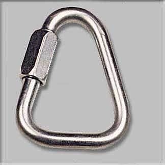 Triangular Or Delta Mallion